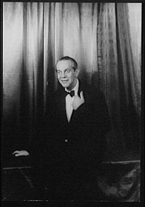 Raymond Massey Autore: Carl Van Vechten Fonte: Library of Congress Licenza: Pubblico dominio [1] Image:Raymond_massey.jpgRaymond Massey